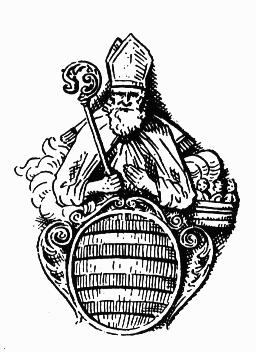 Court seal of Mombach in 1741. The seal follows elder motives, but is decorarted typically according to baroque style. Saint Nicholas, the patron of the local church, erected in 1703, is presented in context of the legend with the 3 scholars brined in a cask.